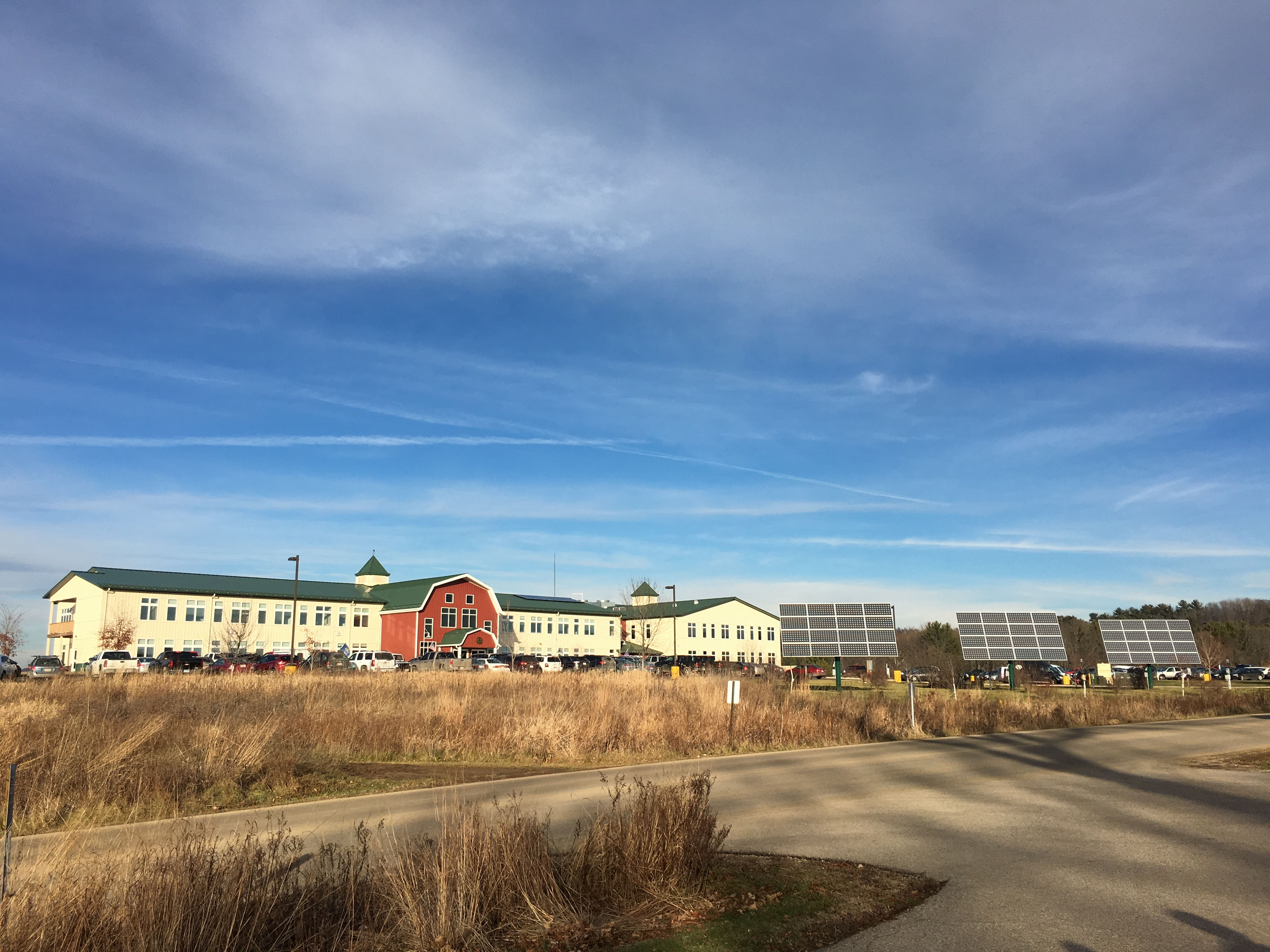 Organic Valley Headquarters - Wisconsin